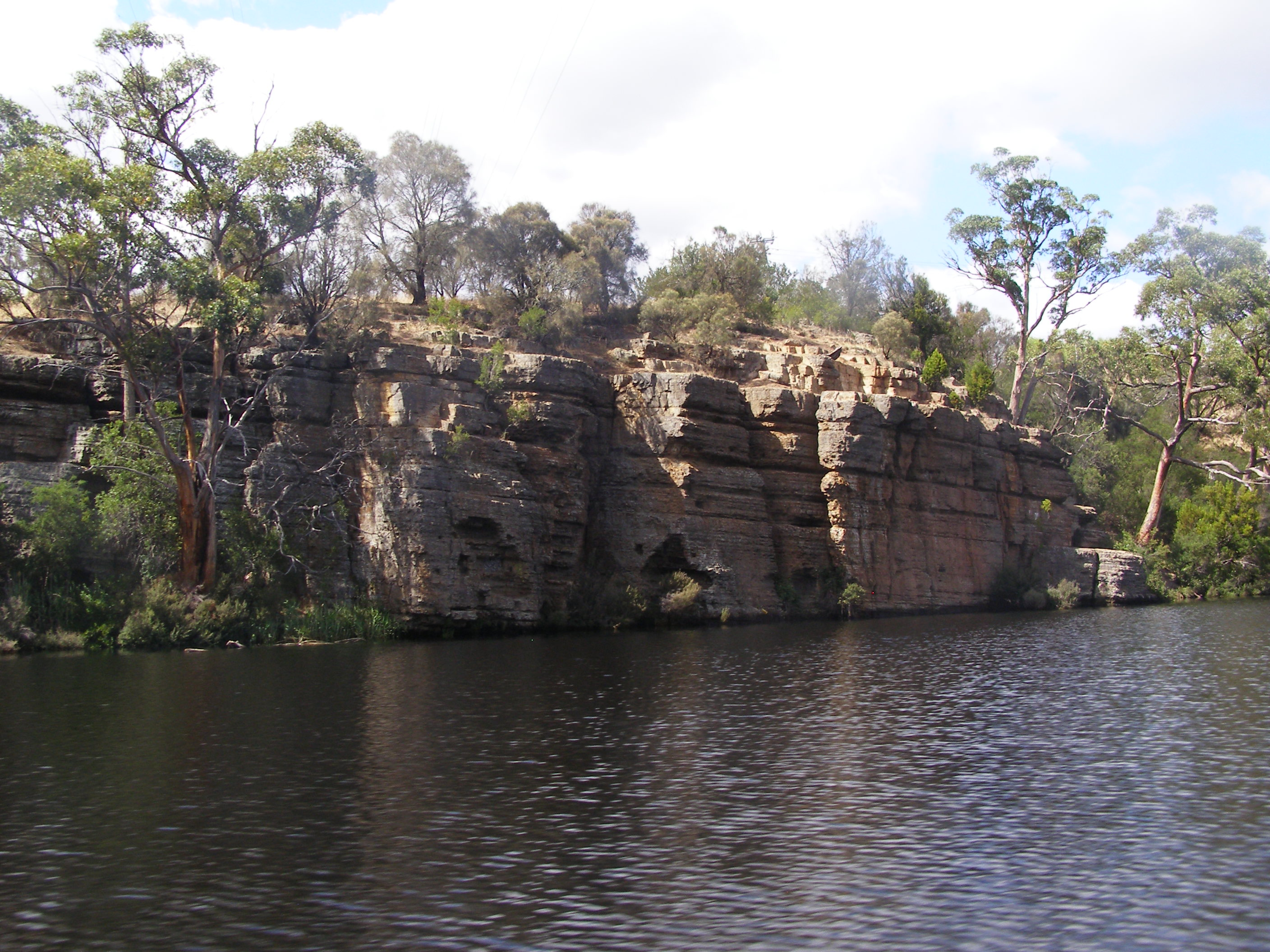 Cliffs along Derwent River, Tasmania, Australia